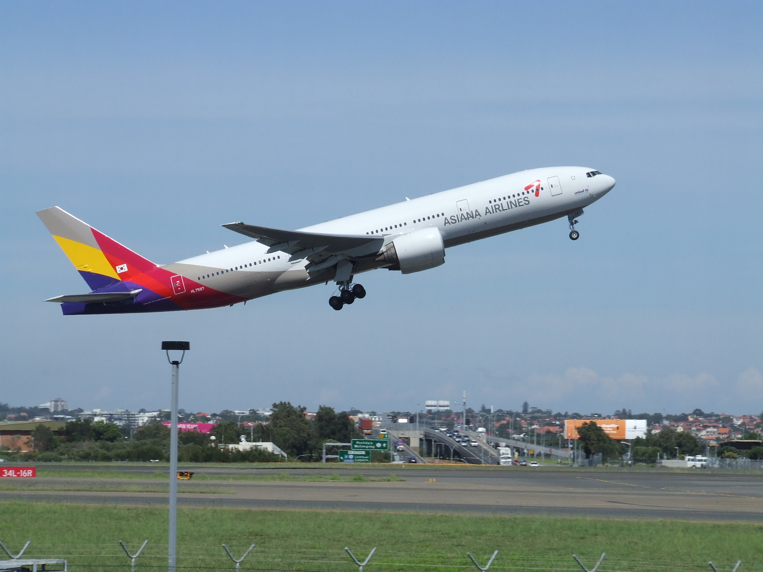 Asiana Airlines Boeing 777-200ER climbing after taking off at Sydney Airport.